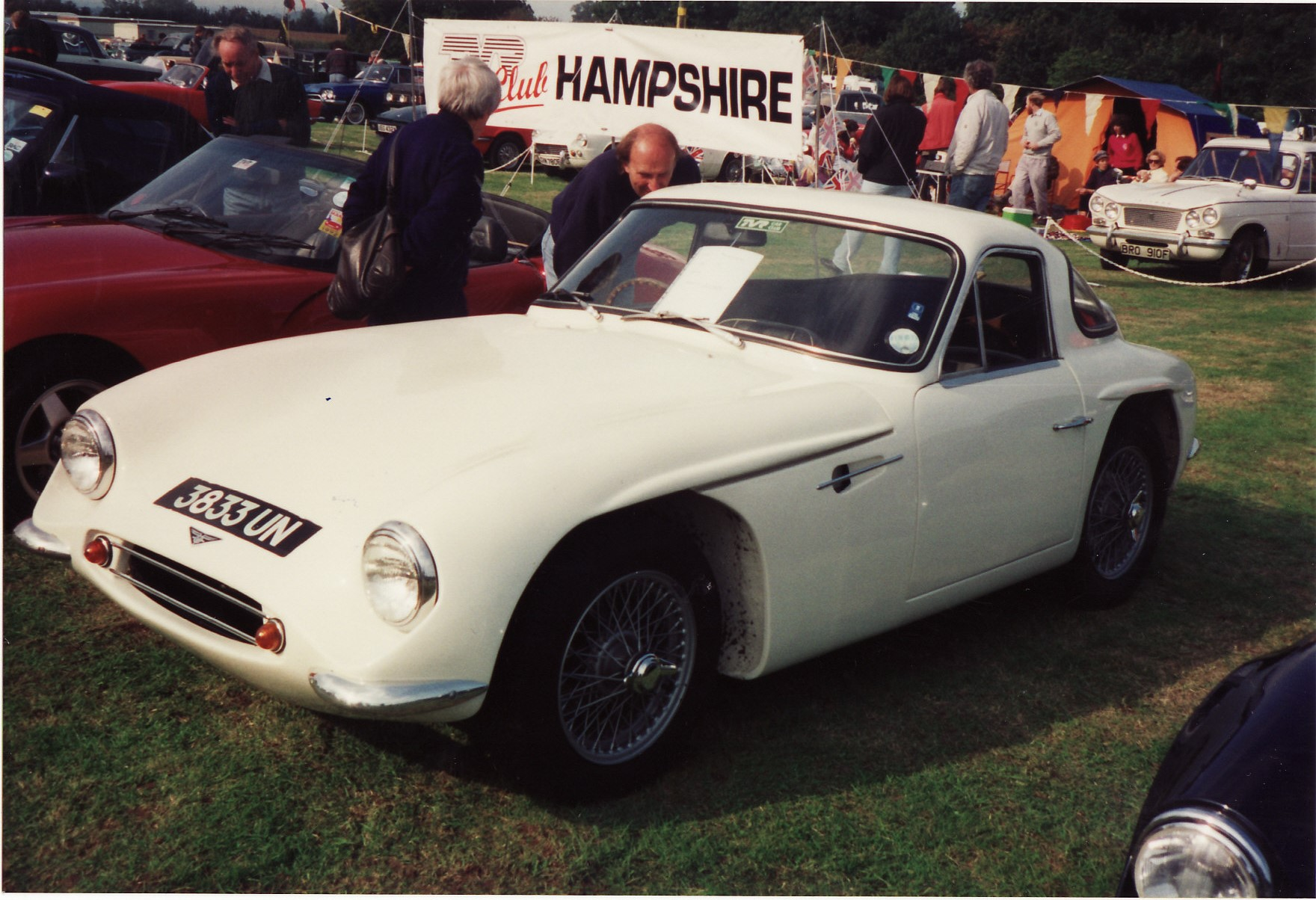 1962 TVR Grantura with a 1.8 litre MGB engine. First registered 26 July 1962.